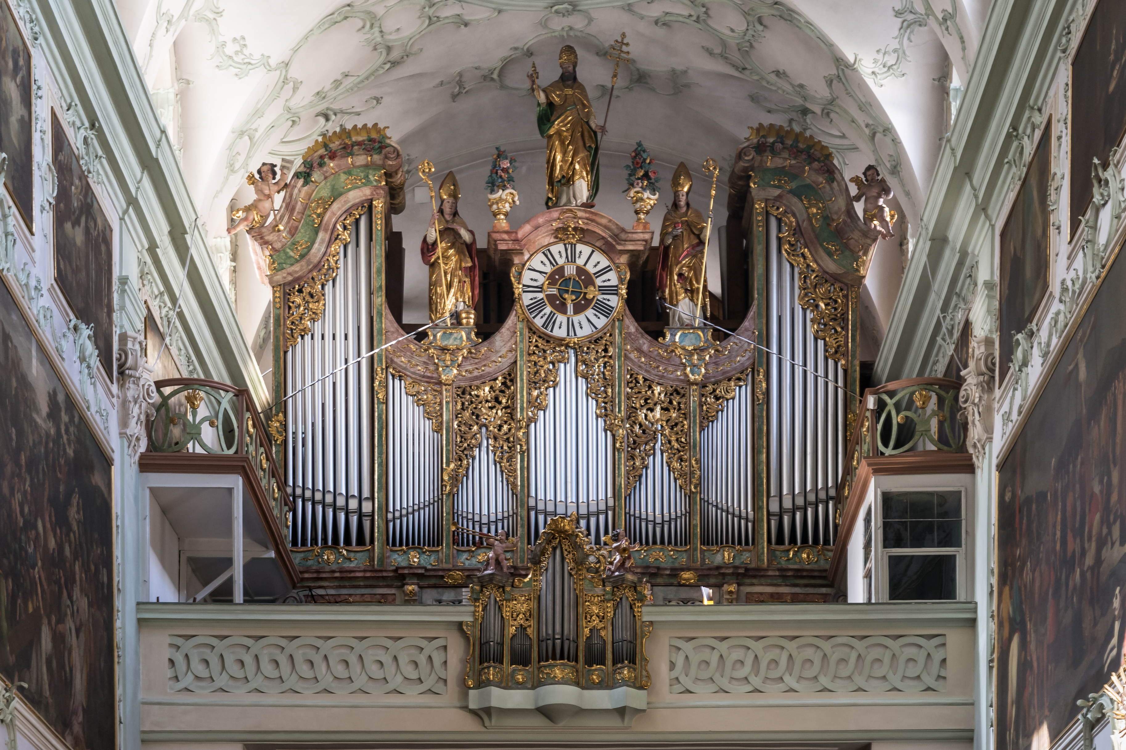 Organ of St. Peter's Abbey Church in Salzburg, federal state of Salzburg, Austria. Built by Hans Mertel, II/39, 1917.